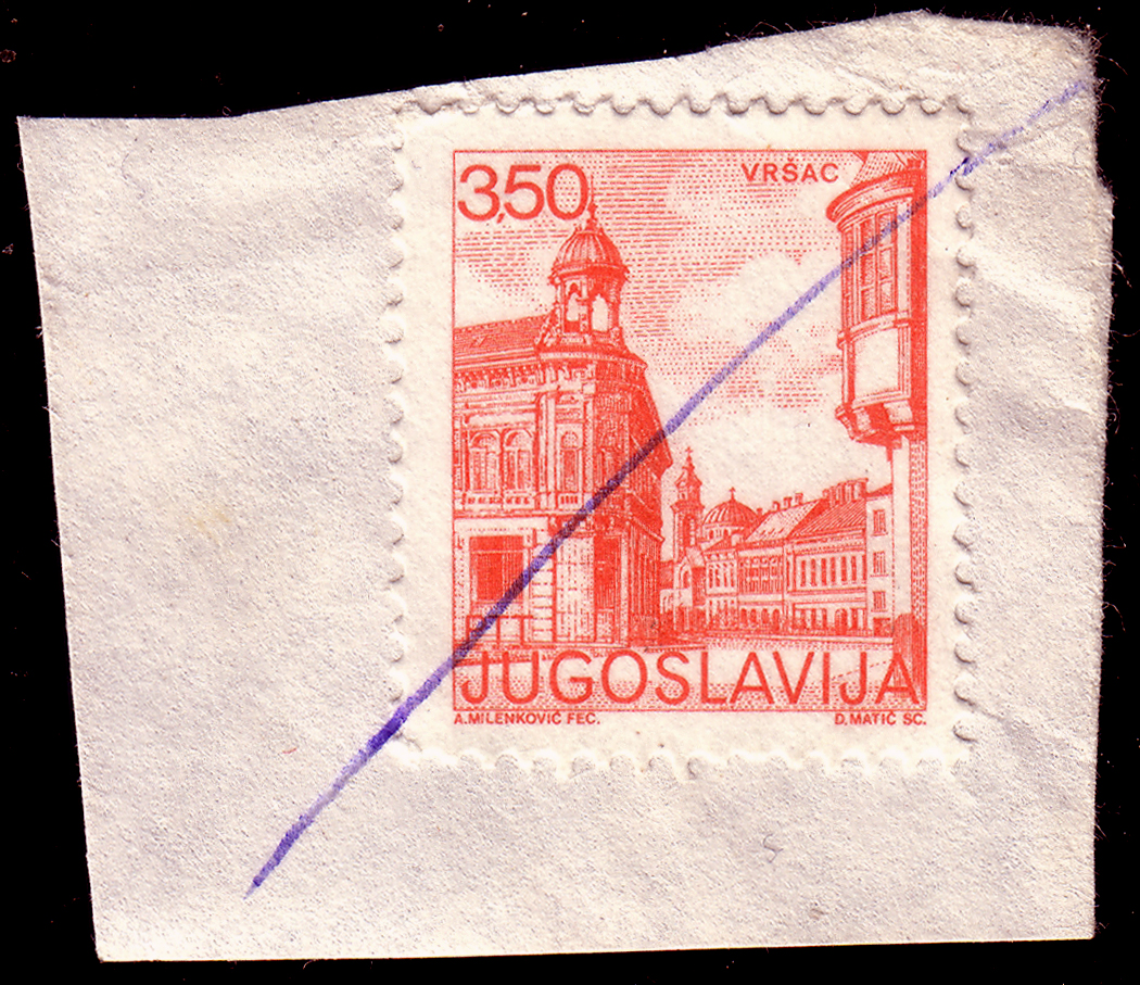 Pen-cancelled postage stamp of Yugoslavia, 1981, 3,50 dinars